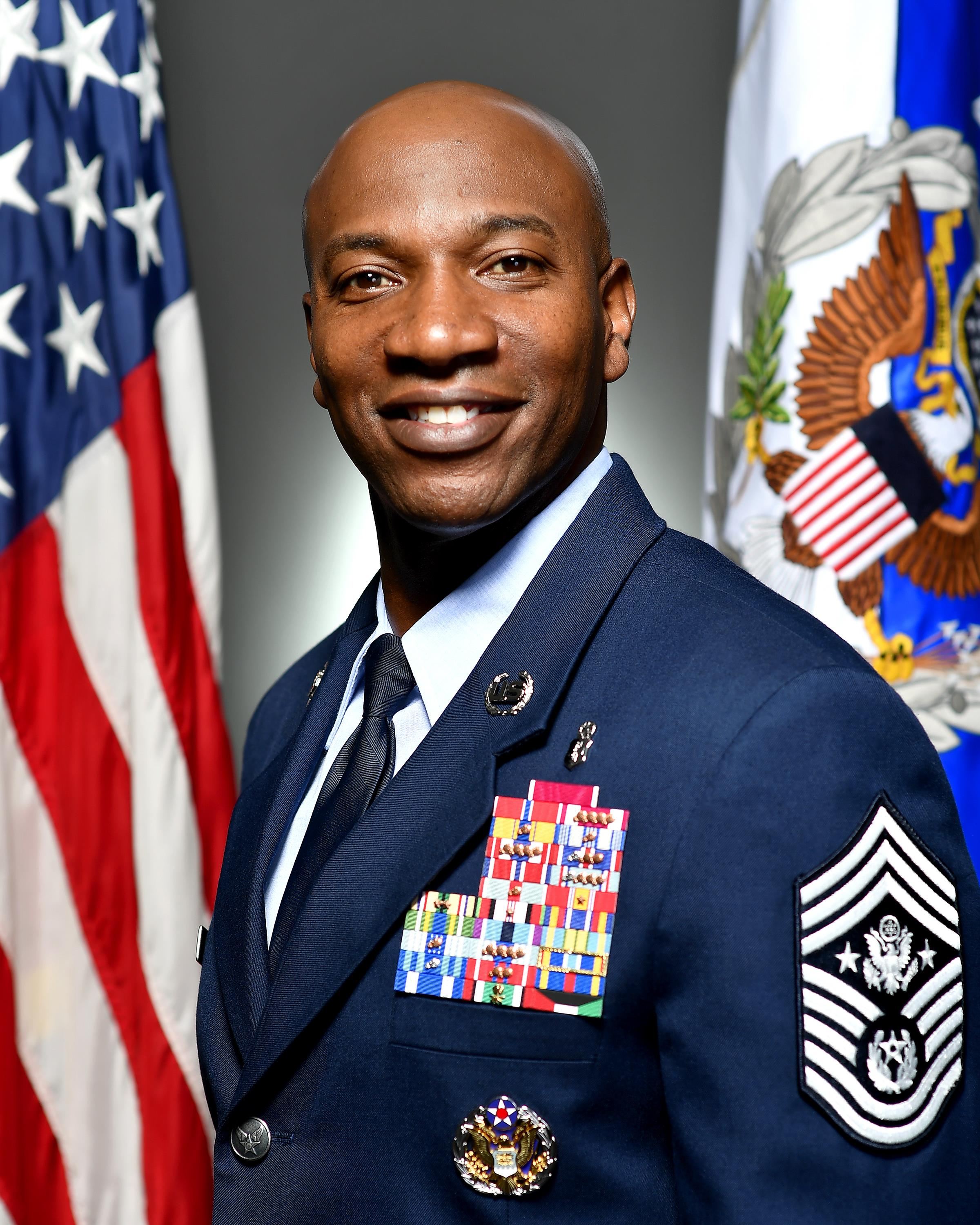 18th CMSAF